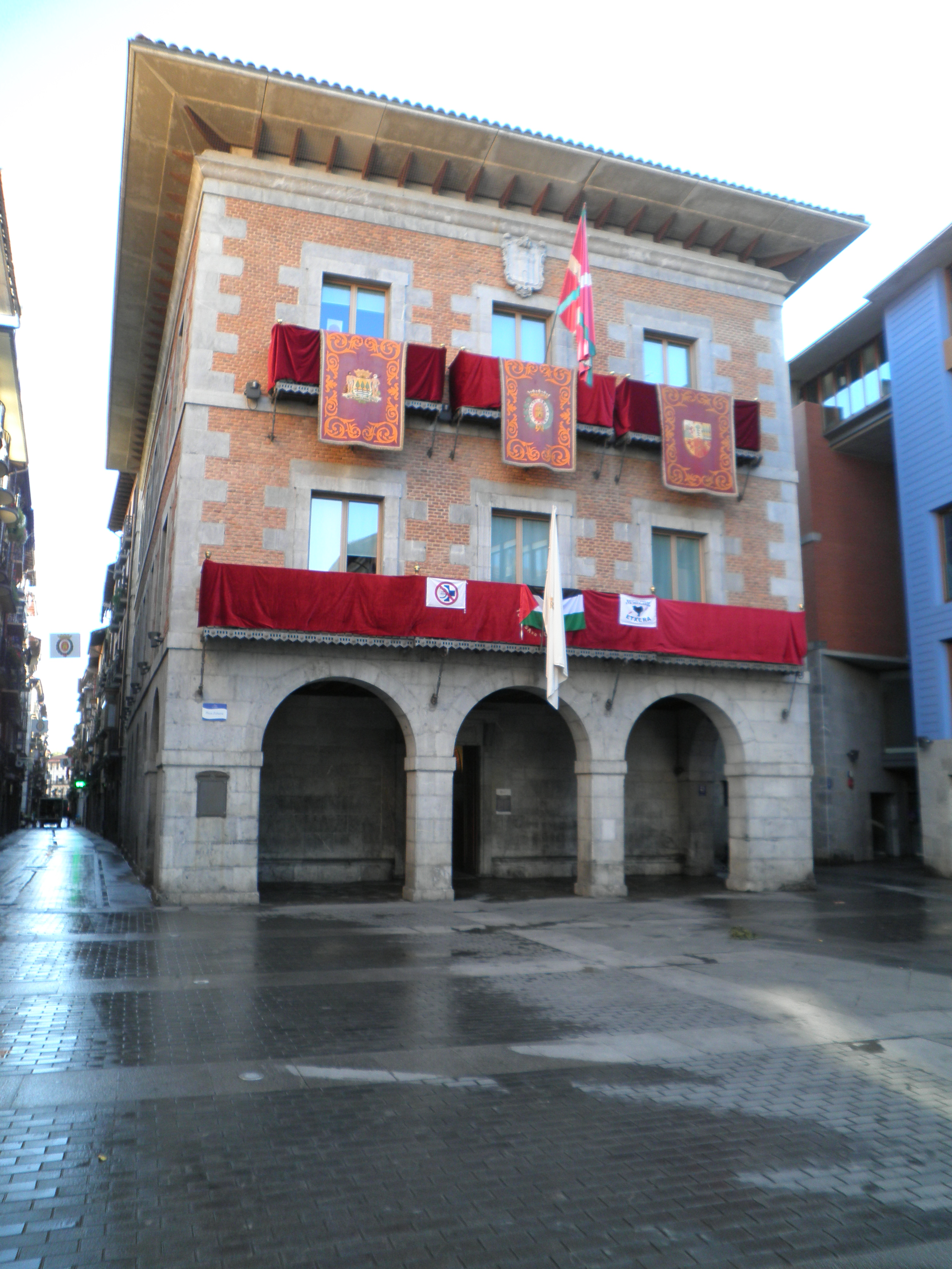 Townhall of Tolosa.